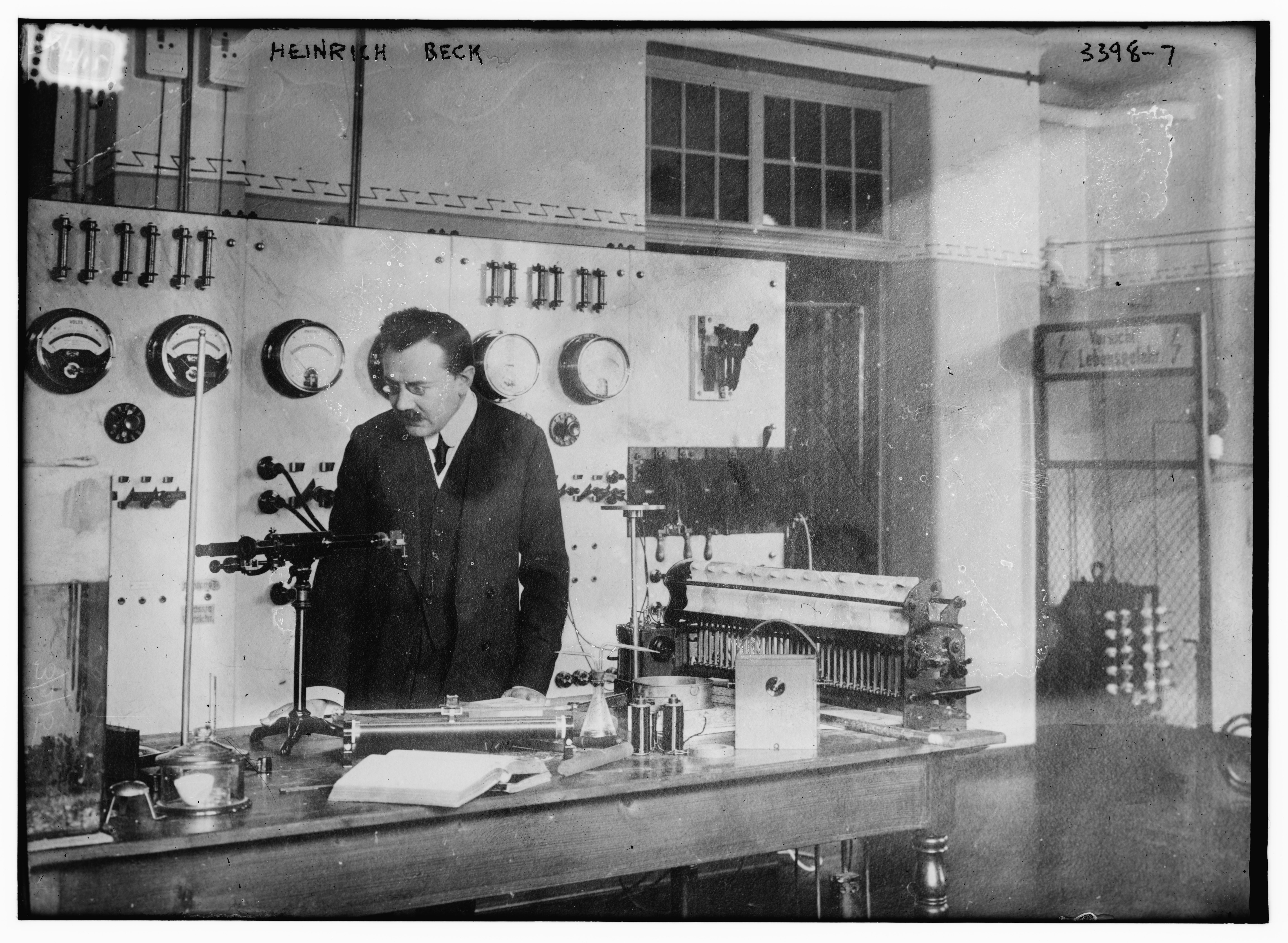 Title: Heinrich Beck Abstract/medium: 1 negative : glass ; 5 x 7 in. or smaller.